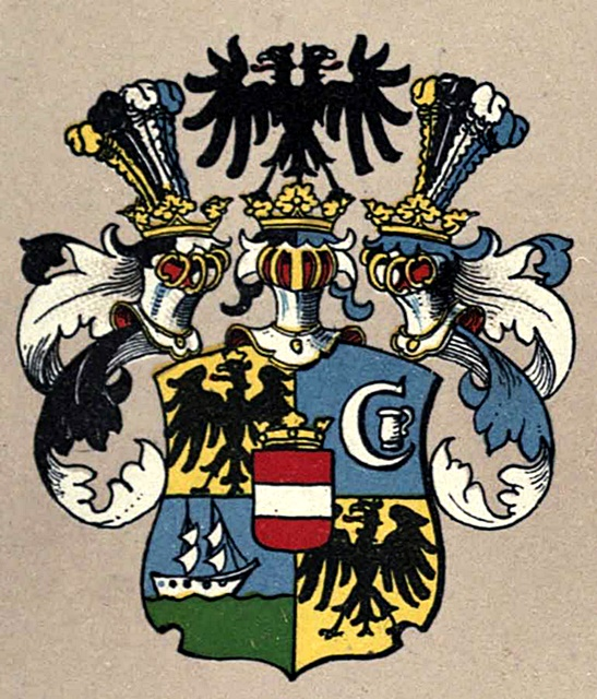 Wappen der österreichischen bzw. ungarischen Adelsfamilie Bartholotti de Partenfeld